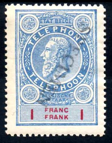 1891 telephone stamp of Belgium overprinted specimen.